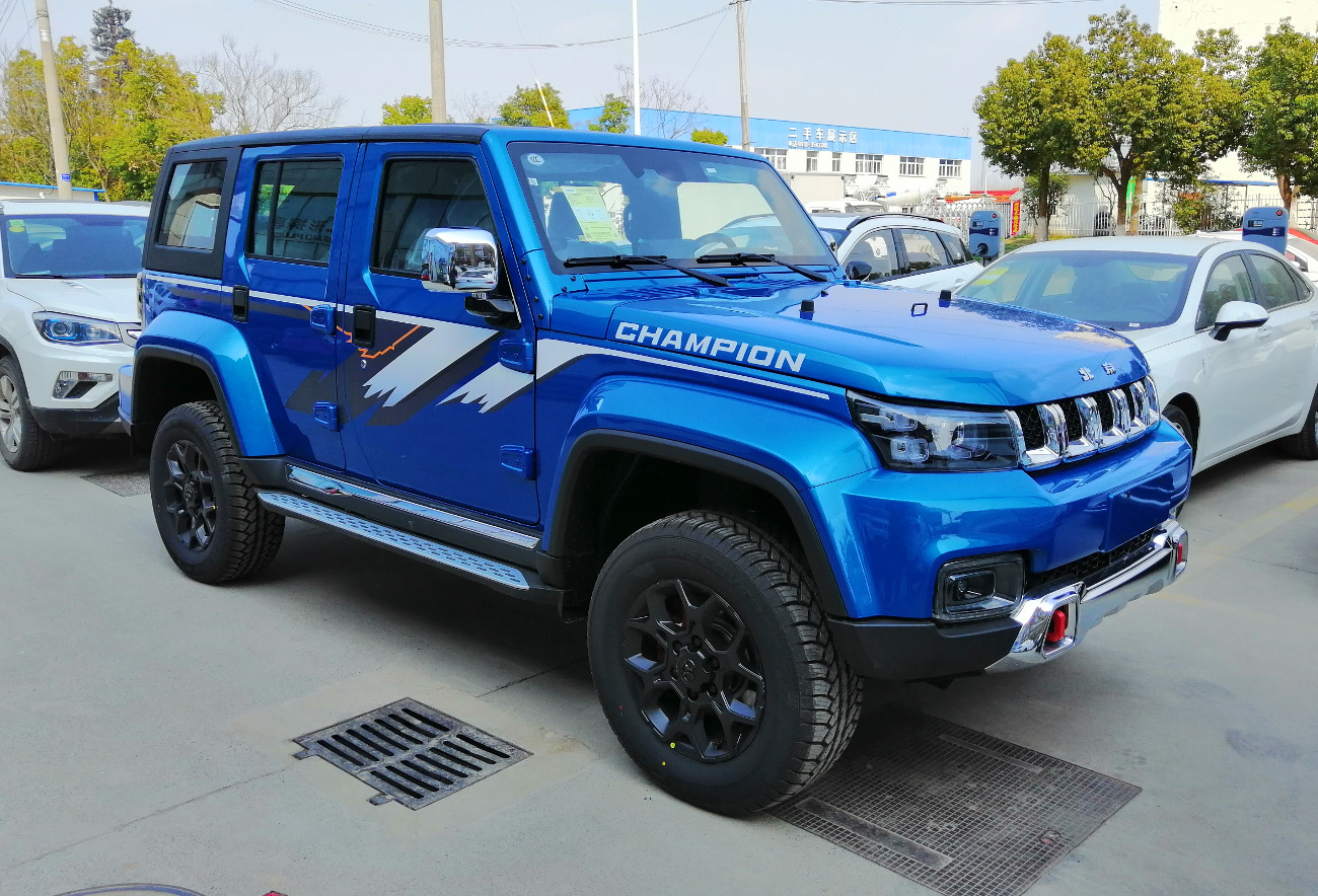 Beijing BJ40 Plus photographed in Hefei, Anhui province, China.